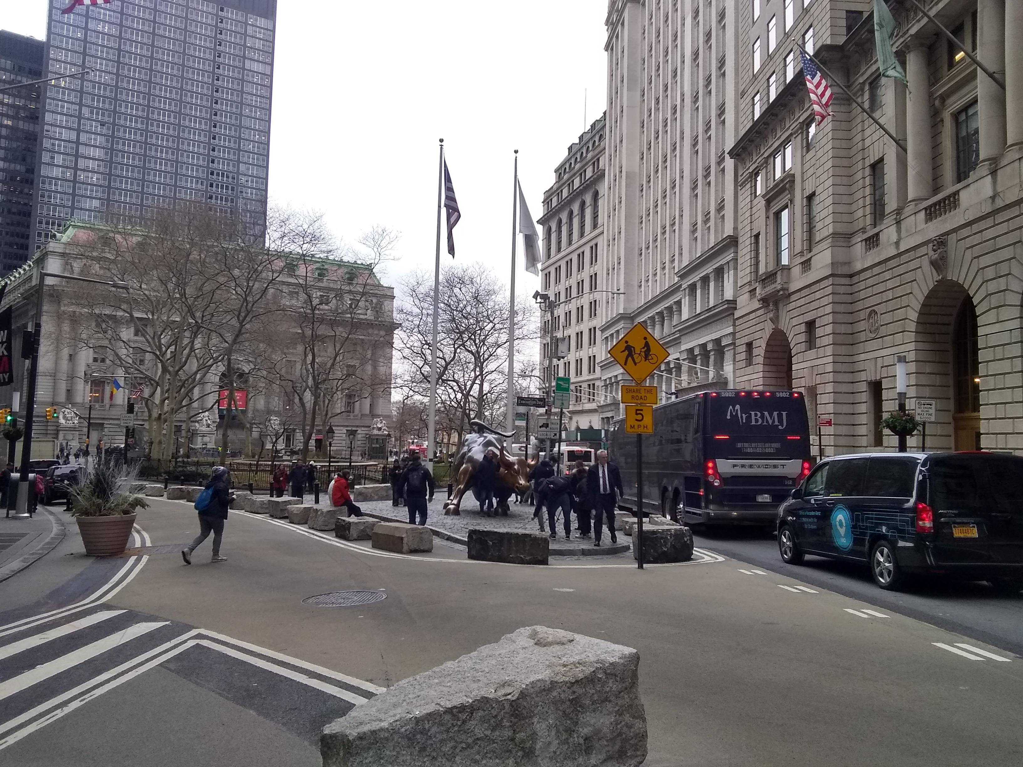 Buildings around Bowling Green, Manhattan, New York